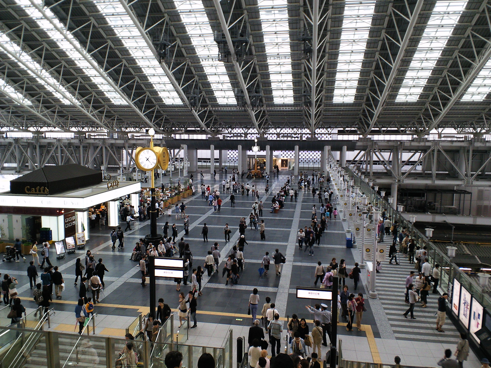 Osaka Station City, Osaka, Japan